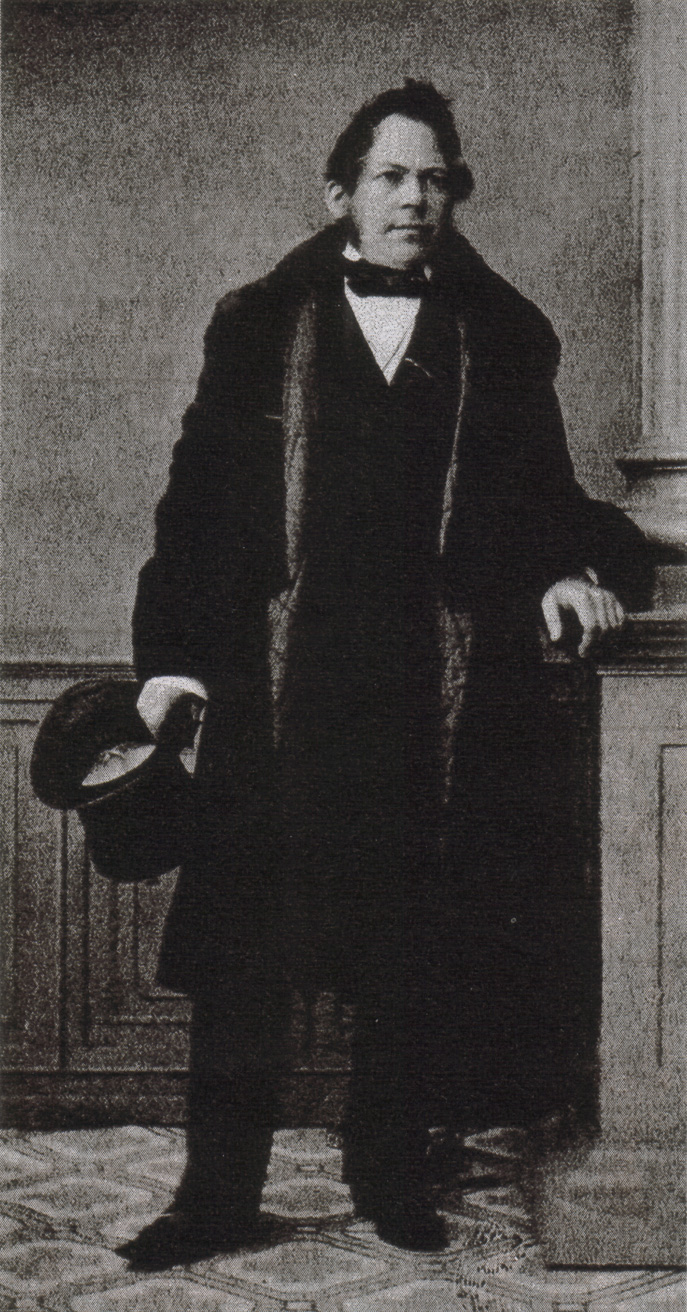 Konstantin von Tischendorf (1815–1874), German theologian, around 1846